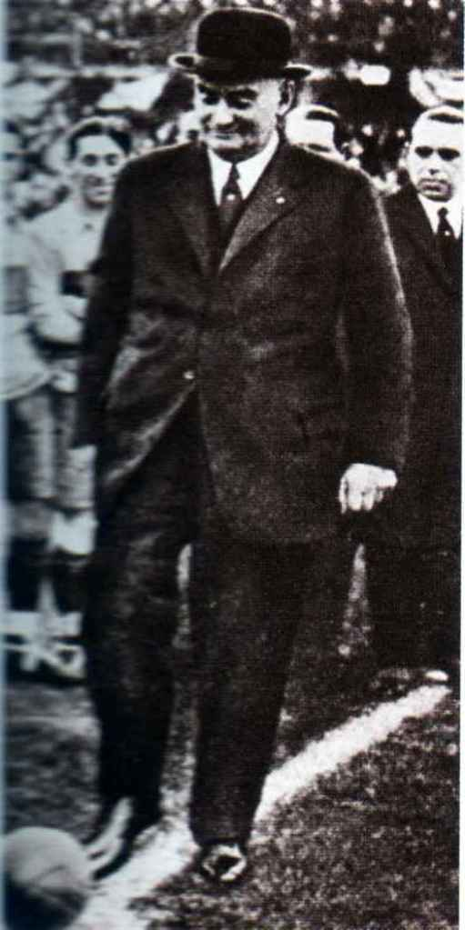 President of Argentina, Marcelo Torcuato de Alvear, kicks off the inaugural game of the Boca Juniors stadium, a friendly between the local team and Nacional de Montevideo